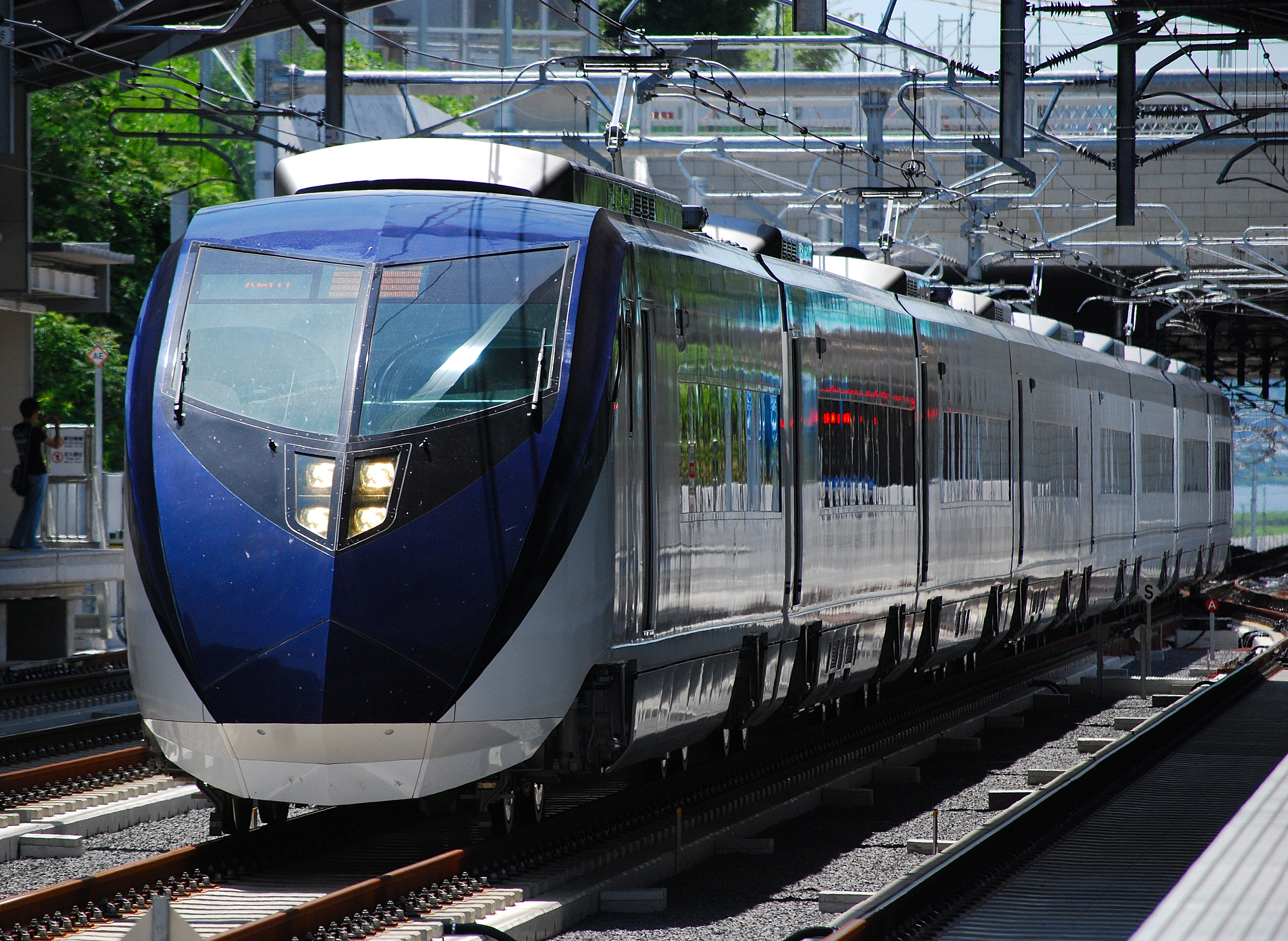 Keisei AE series EMU passing Narita Yugawa Station on a Skyliner service